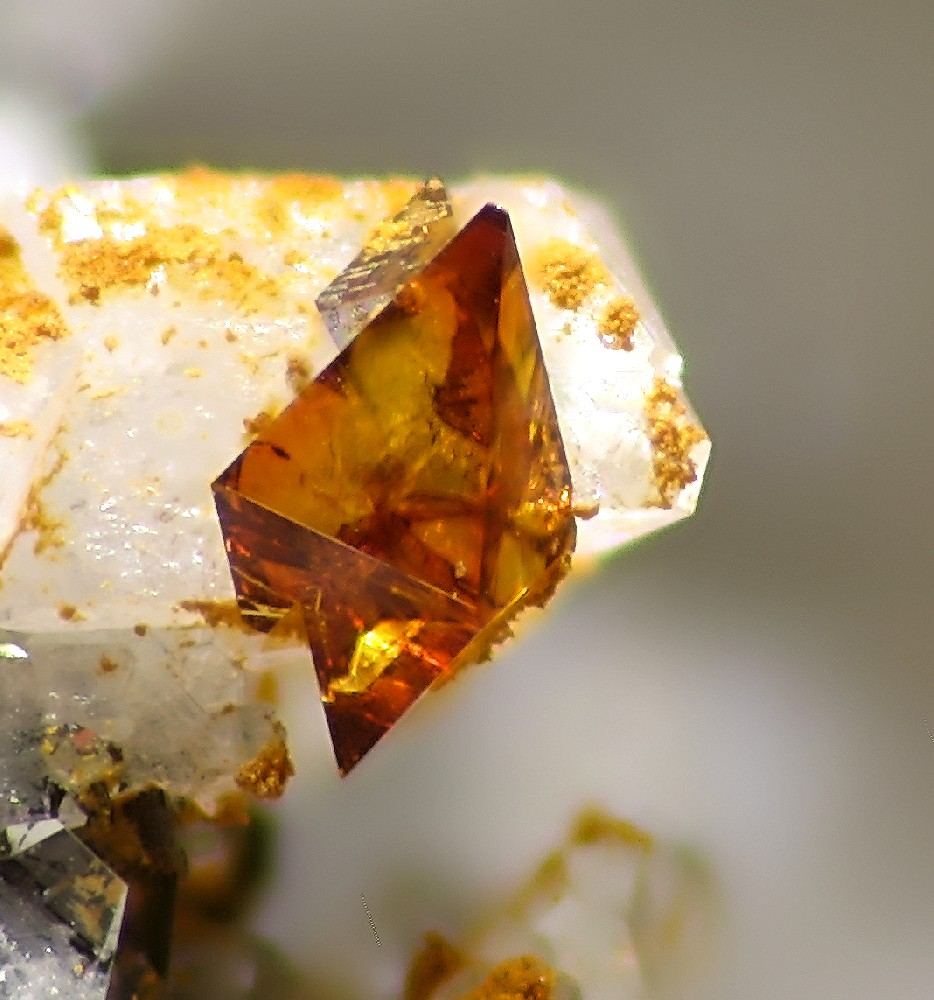 Anatase Locality: Adra-Motril highway, Adra, Almería, Andalusia, Spain Picture width 2 mm. Collection and photograph Christian Rewitzer